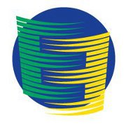 Logo of the Energy Charter Treaty